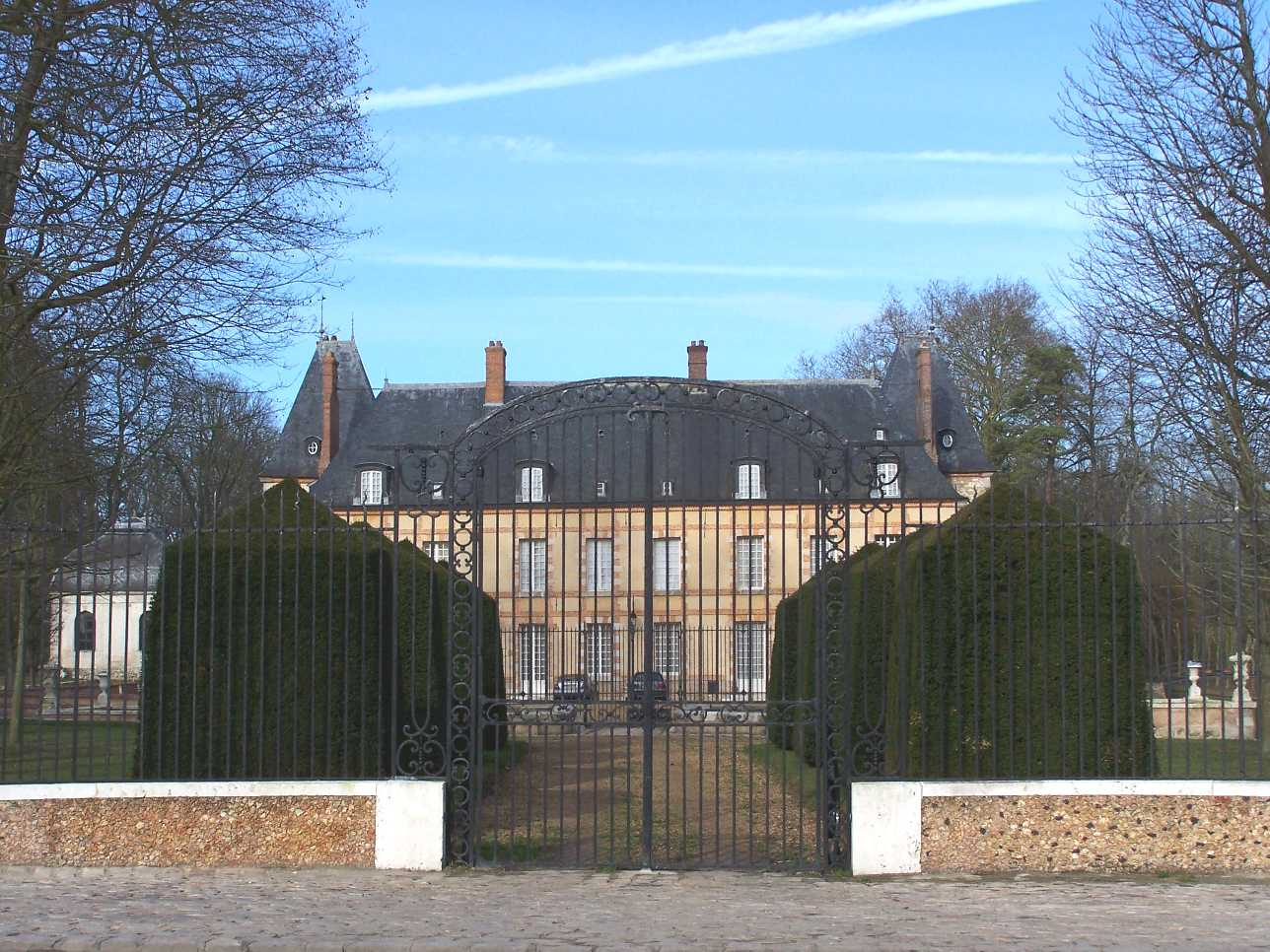 Castle of Bourdonné (Yvelines, France)